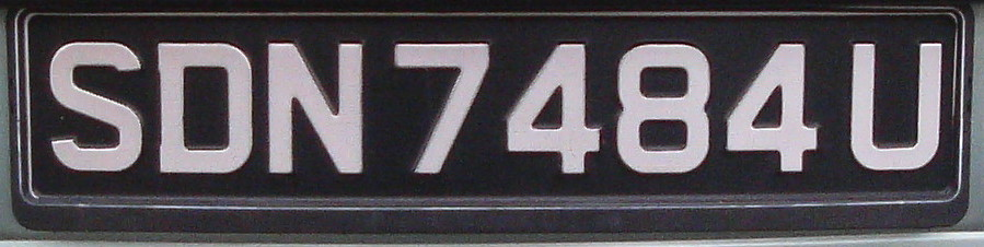 A Singaporean white-on-black rear vehicle registration plate on a silver Ford Focus car.